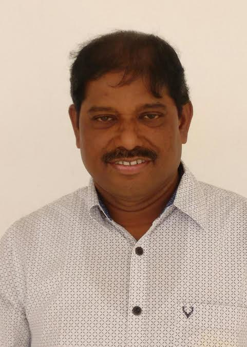 Thangam moorthy தங்கம் மூர்த்தி